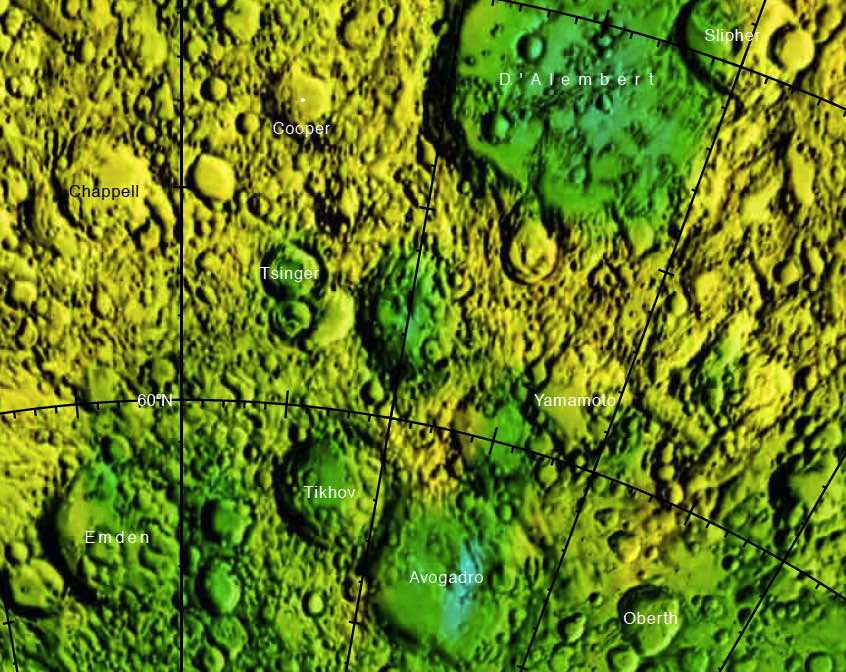 Part of the Moon far side chart.